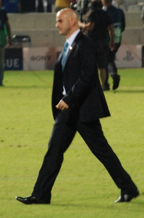 Temur Ketsbaia after win of Anorthosis over Panathinaikos which puts them on top of group B in the Champions League alongside Inter Milan.